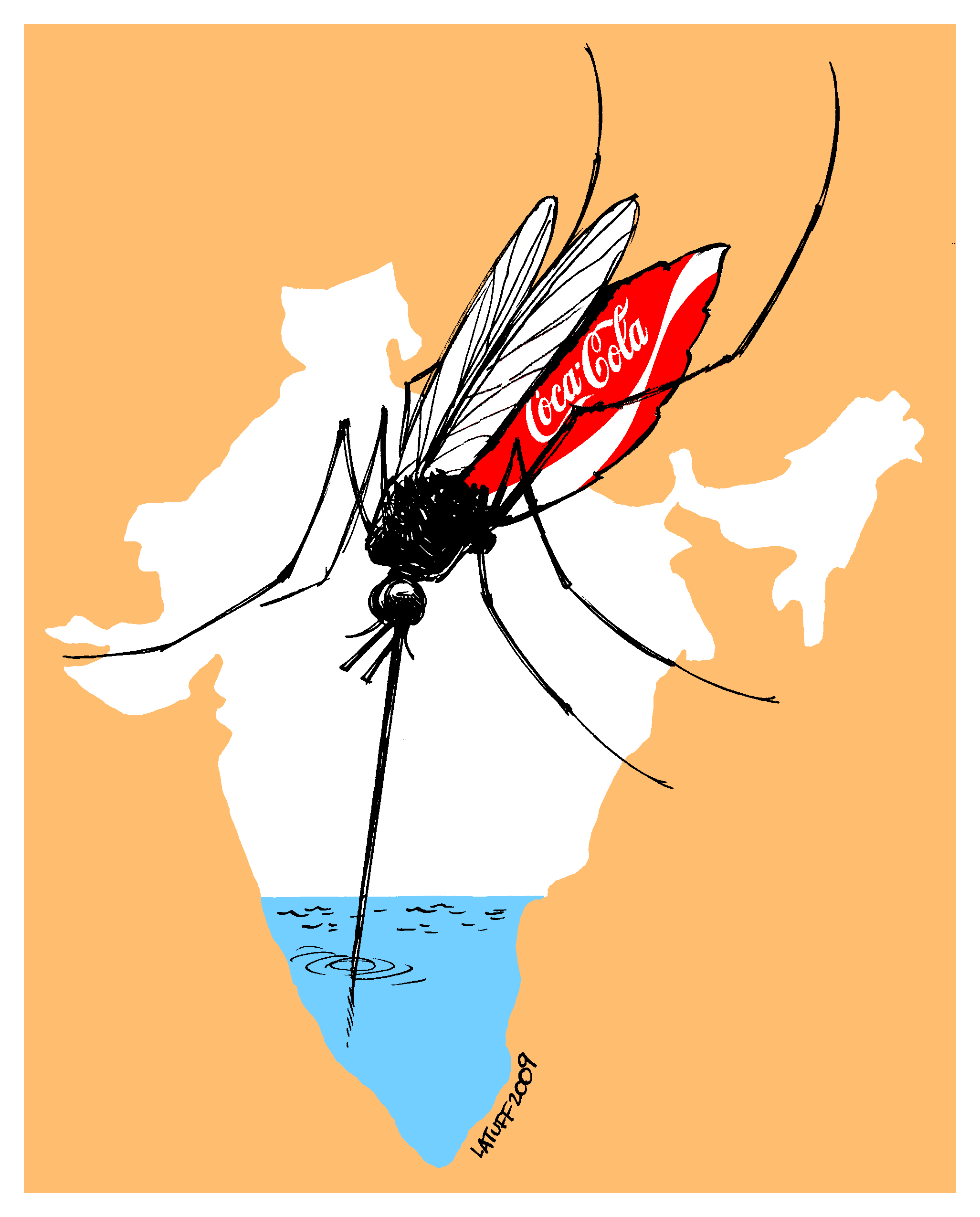 Led by the communities impacted by Coca-Cola in India, the International Campaign to Hold Coca-Cola Accountable works to apply pressure on the Coca-Cola company as well as the Indian government to meet the demands of the communities impacted by Coca-Colaâs operations. Visit